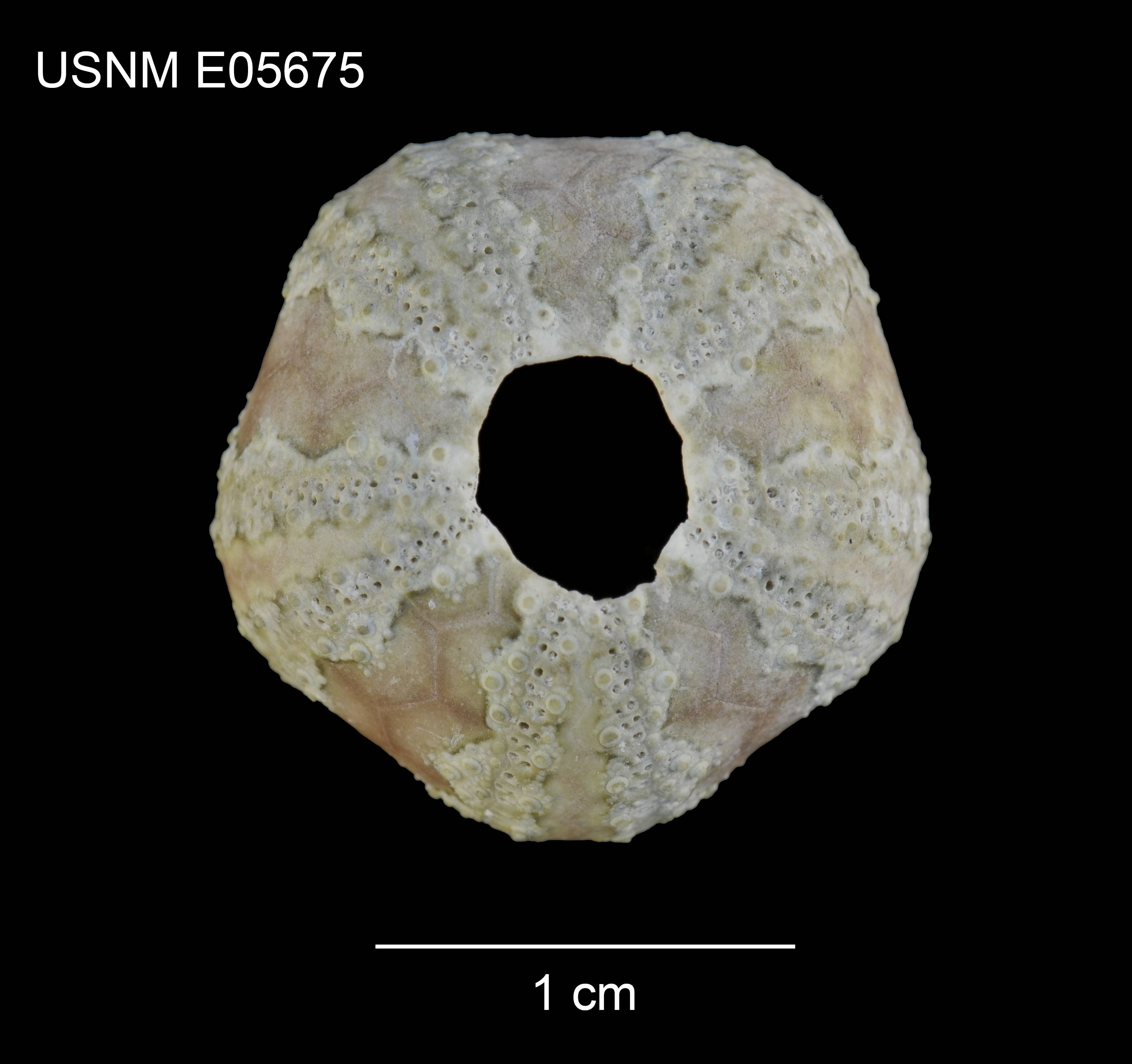 PRESERVED_SPECIMEN; Preparations: Dry; Microcyphus excentricus Mortensen, 1940; Individual count: 1; Type status: HOLOTYPE; Identified by: Mortensen, Th.; Event date: 19080213T00:00:00Z; Additional description: dorsal